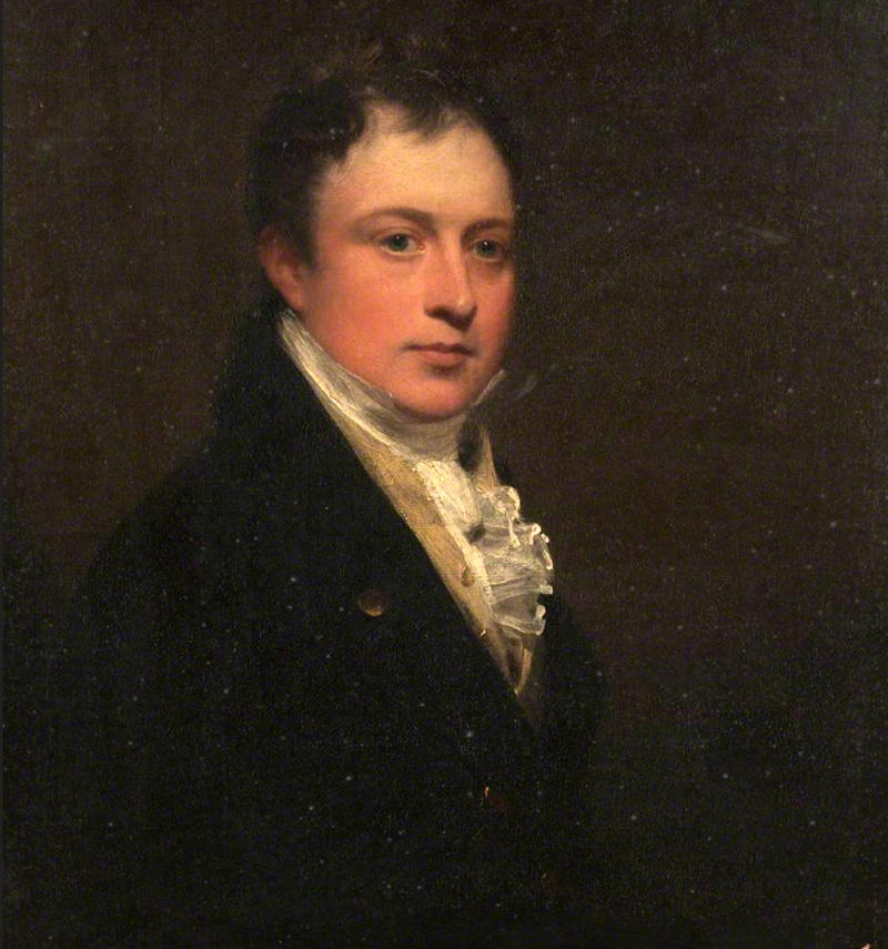 Sir John Owen (1776-1861)owner of the Landshipping Estate